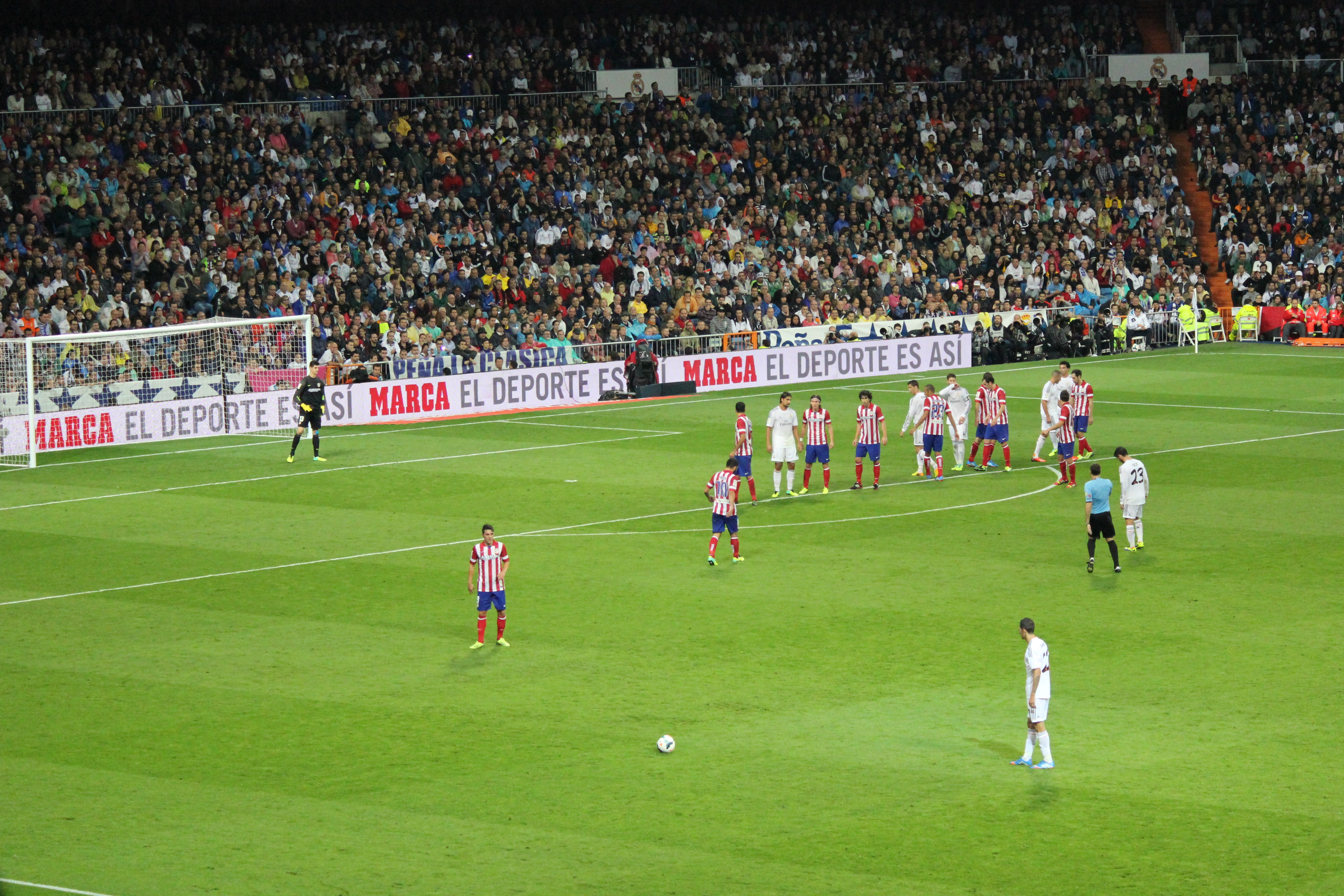 Isco playing for Real Madrid against Atlético Madrid on 28 September 2012 at a home game for Real Madrid.